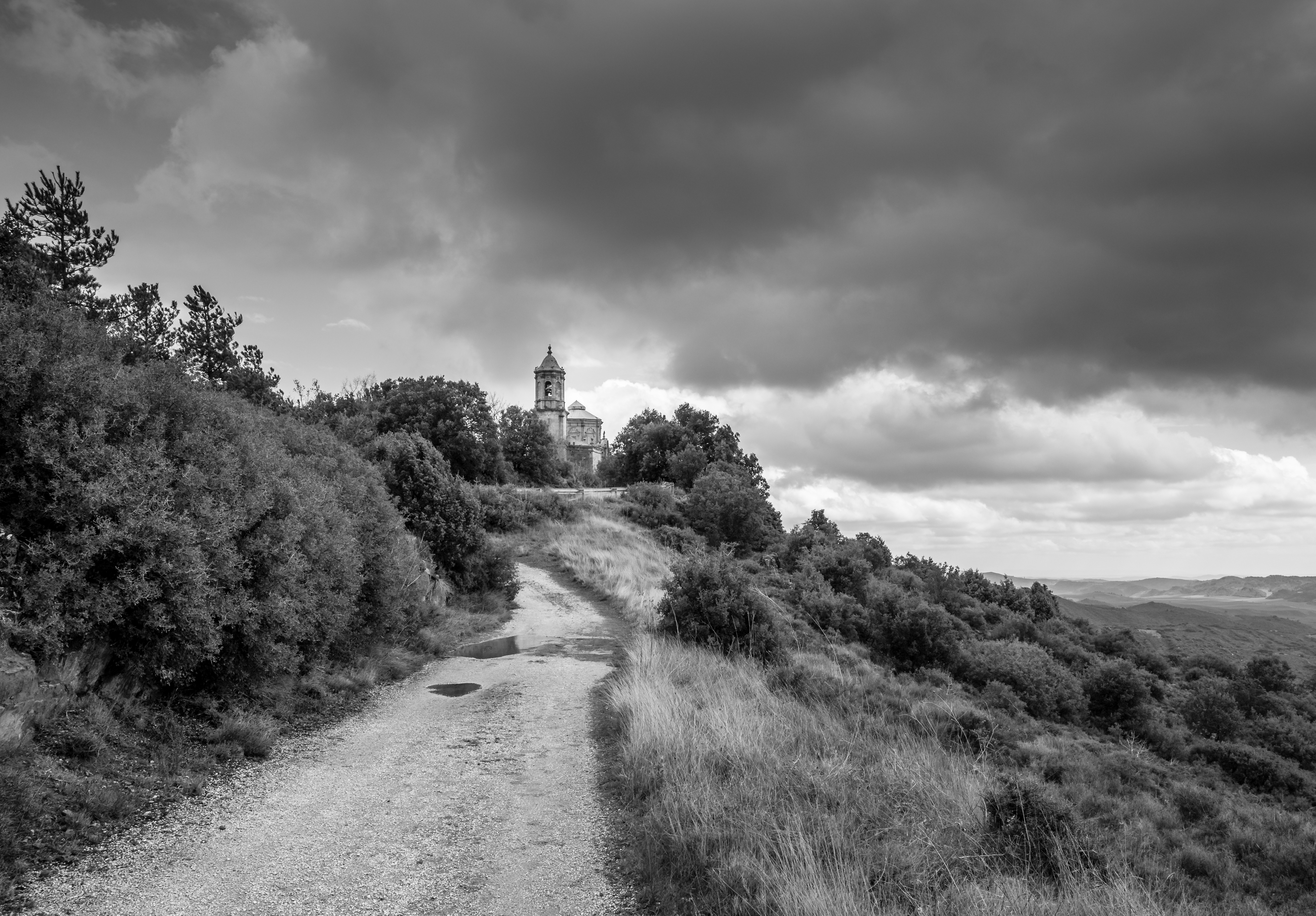 Basilica of San Gregorio Ostiense. Sorlada, Navarre, Spain